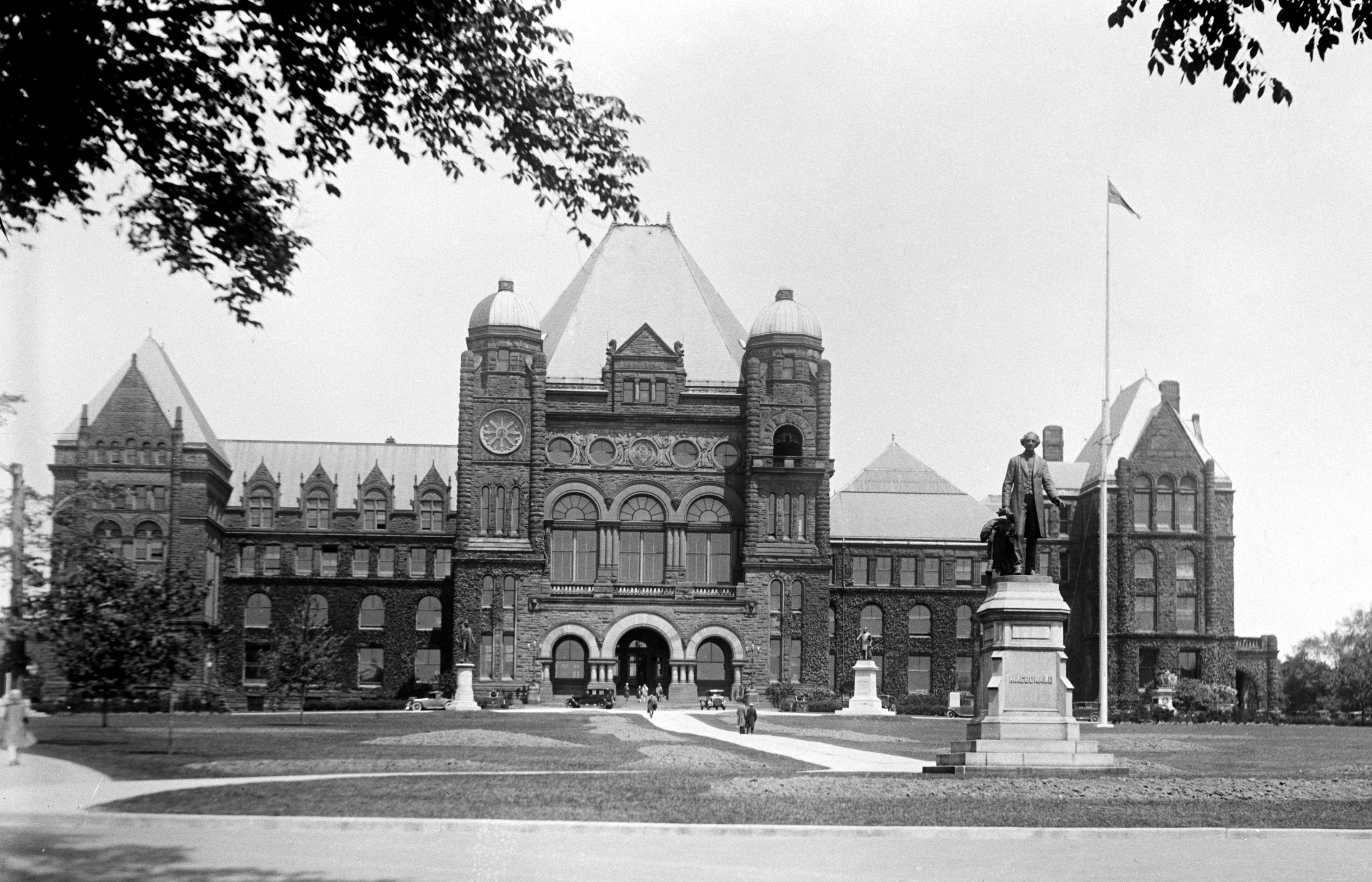 Ontario Legislature Building, Toronto, Canada.